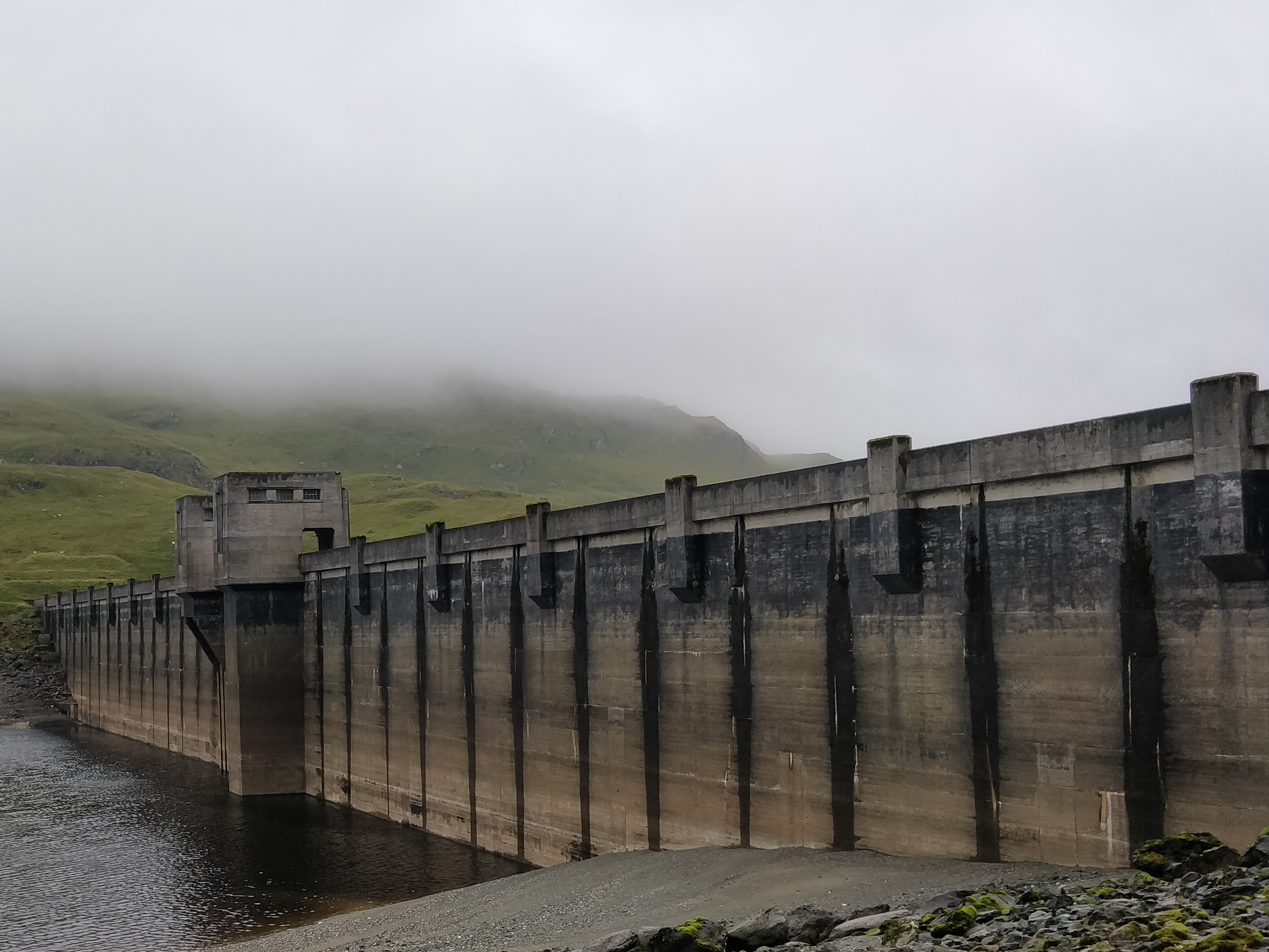 Finlarig Dam